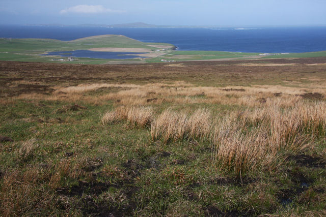 Rousay moorland Looking north from Nether Bow, alongside the winding waymarked track that leads to the Loch of Loomachun. The Loch of Wasbister can be seen in the distance, whilst the hills of Westray can just be made out on the far horizon.